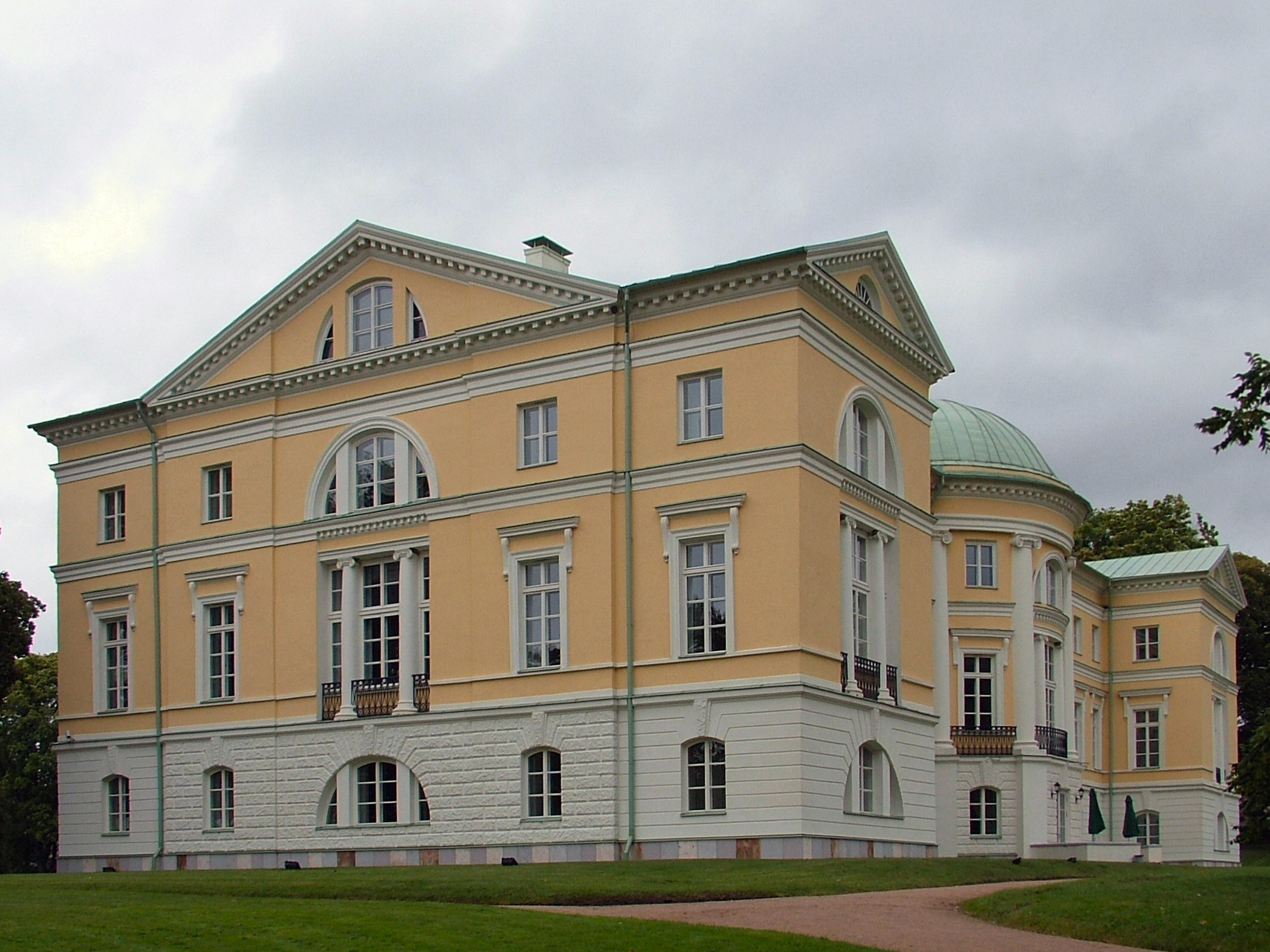 Mežotne palace (Mežotnes Pils) in Mežotne, Latvia. Built from 1797 to 1802 by architect J. George Adam Berlic after plans by Giacomo Quarenghi (1744-1817). The building was partially destroyed during the world wars and later restored.